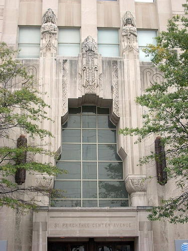 Southern Bell Building Detail